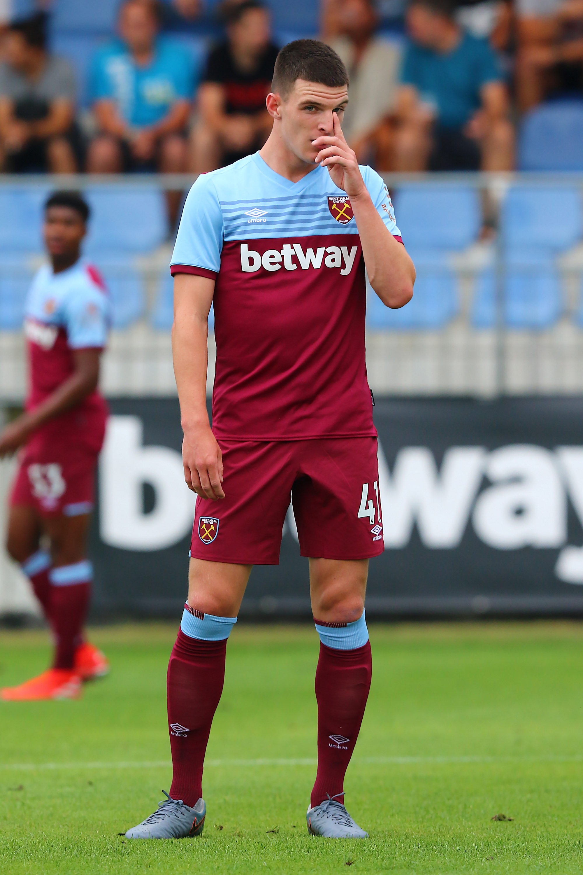 Friendly match Hertha BSC (blue-white shirts) vs. West Ham United (red-blue shirts) at 31-07-2019 3-5 (3-2) in the Sonnenseestadium in Ritzing. – The photo shows Declan Rice (West Ham United).